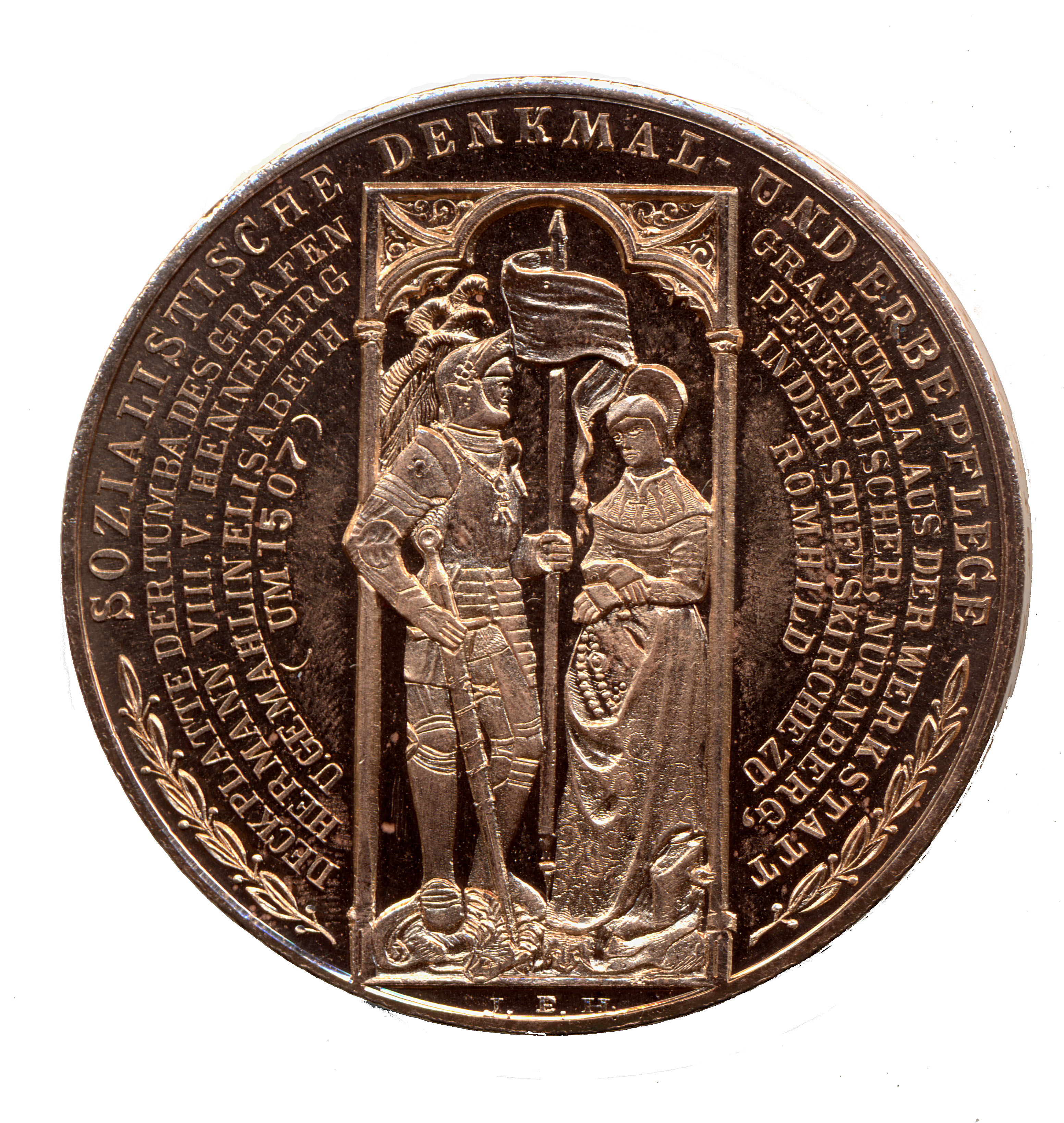 medallion of Henneberg tomb by Vischer, made by DDR (East Germany) in 1950